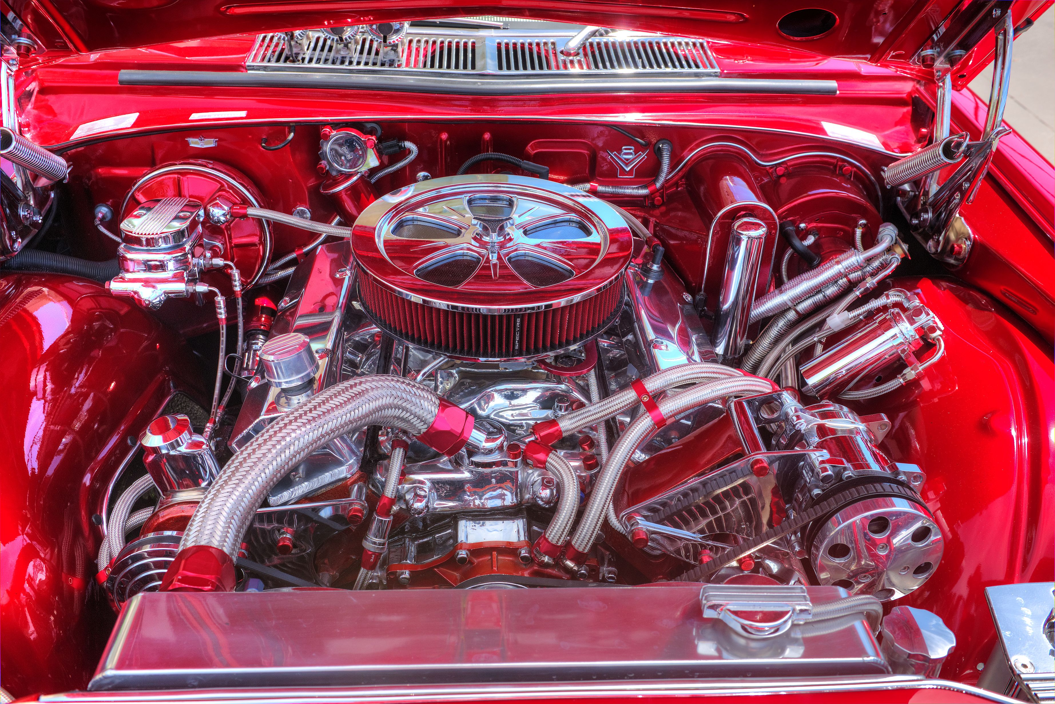 2014 Victorian Hot Rod Show